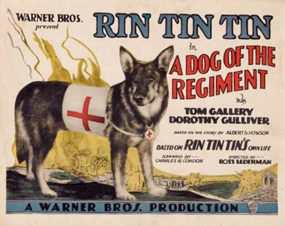 Poster for the 1927 film A Dog of the Regiment. The item has no copyright markings on it.